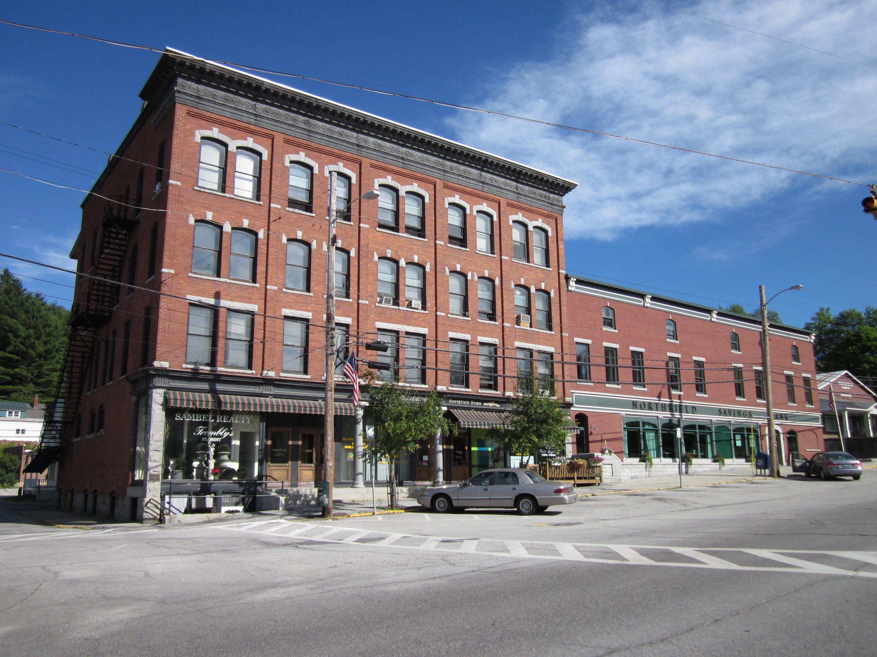 Mayo Block, Northfield, Vermont